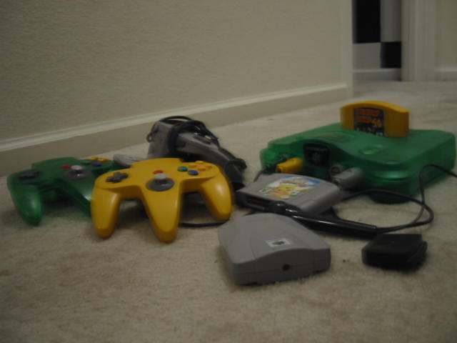 Second shot of Jungle Green Limited Edition N64 set with "Hey You Pikachu" set.